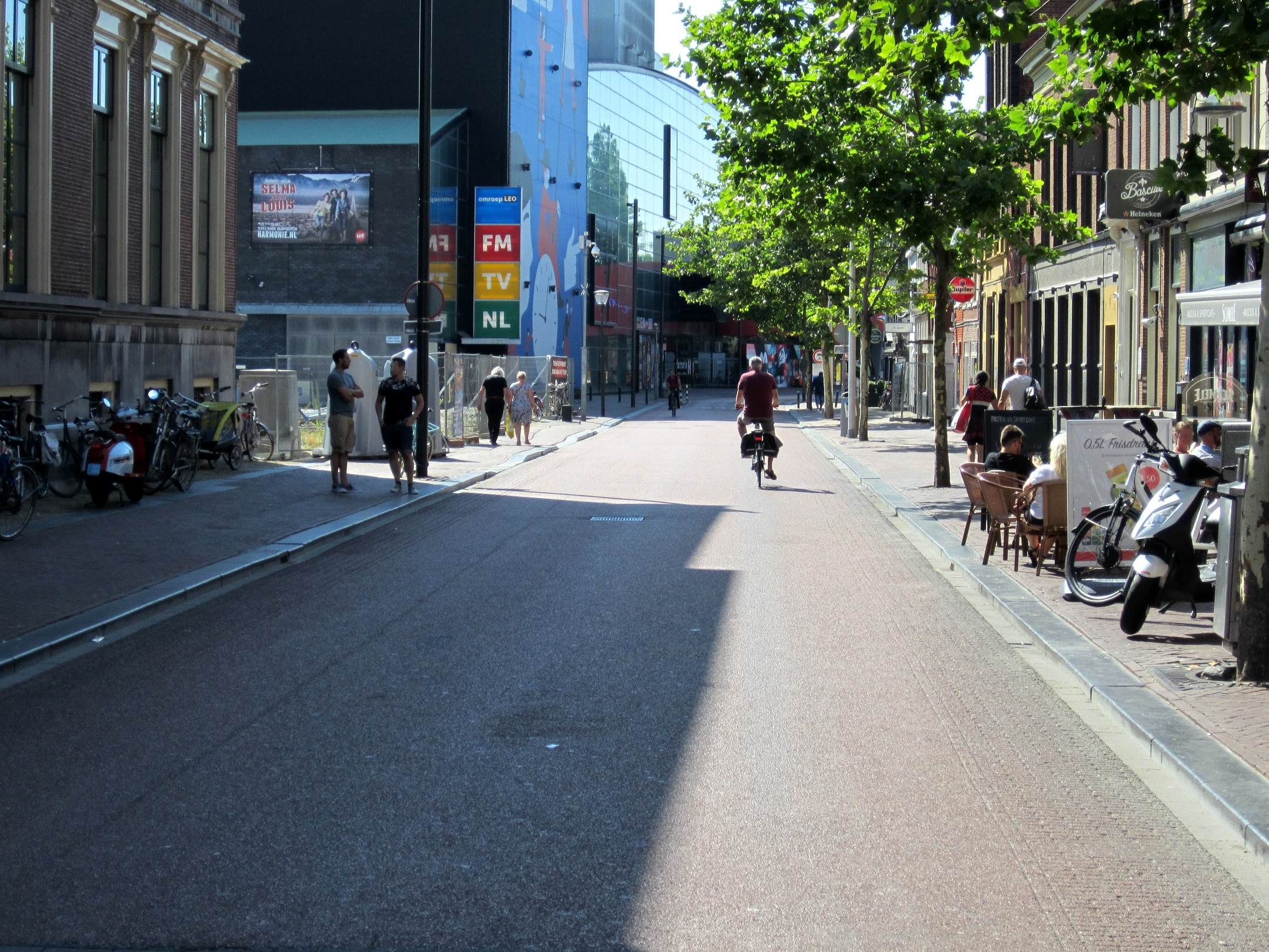 Ruiterskwartier (Frisian: Ruterskertier), a street in Leeuwarden/Ljouwert, Friesland, the Netherlands. Seen from Zaailand square in a westerly direction, along the north side of the Palace of Justice (the large brick building in the left of the photograph.